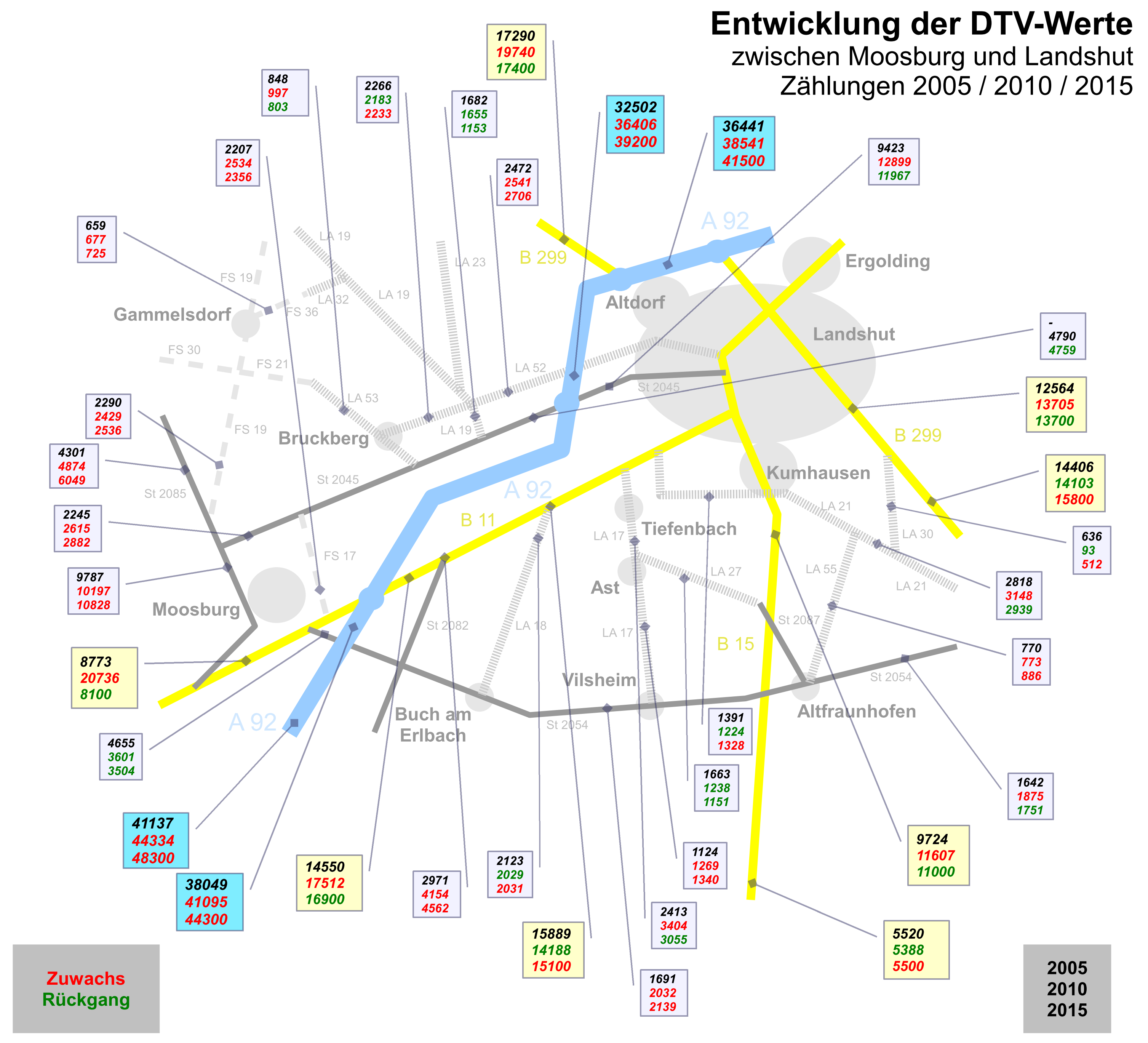 This graphic shows the developement of the DTV values in the area between Moosburg and Landshut/Germany measured in the years 2005 / 2010 / 2015. The source of these measuring results is and